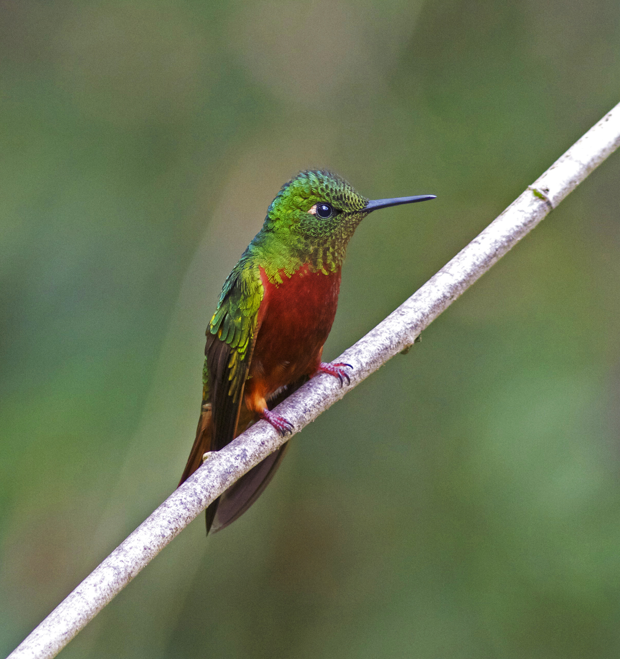 Chestnut-breasted Coronet photo taken at San Isidro Lodge, NE Ecuador.